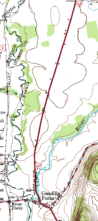 1943 topographic section of New York State Route 413